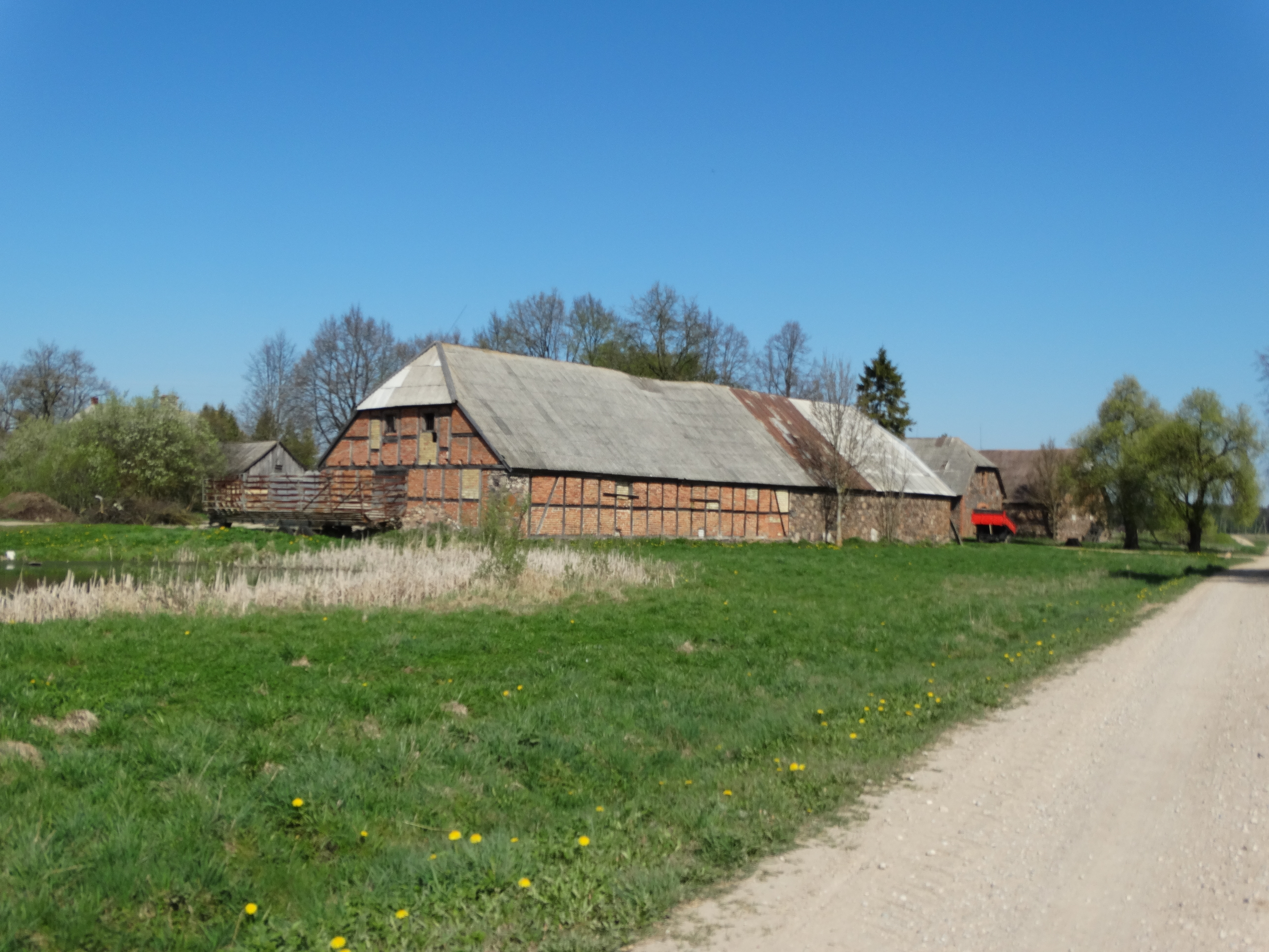 Kurkliai manor, Radviliškis District, Lithuania